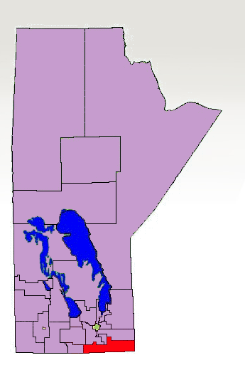 The new boundaries of the Manitoba riding of Emerson highlighted in red.